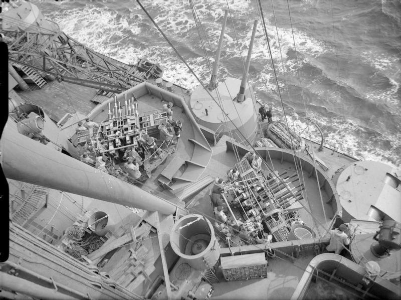 Aboard British battleship HMS Prince of Wales. Looking down on two of the eight-barreled two-pounder pom-poms and two of the twin 5.25 inch gun turrets.